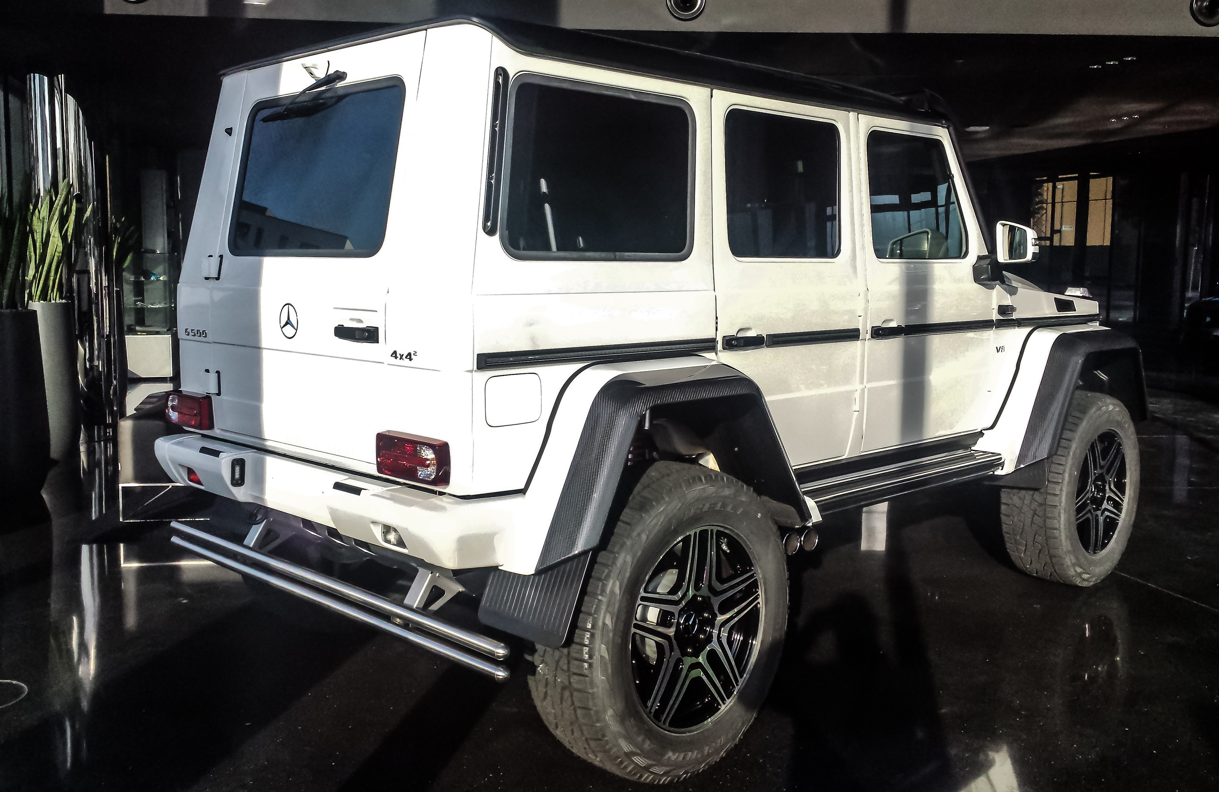 Mercedes-Benz G 500 4x4²